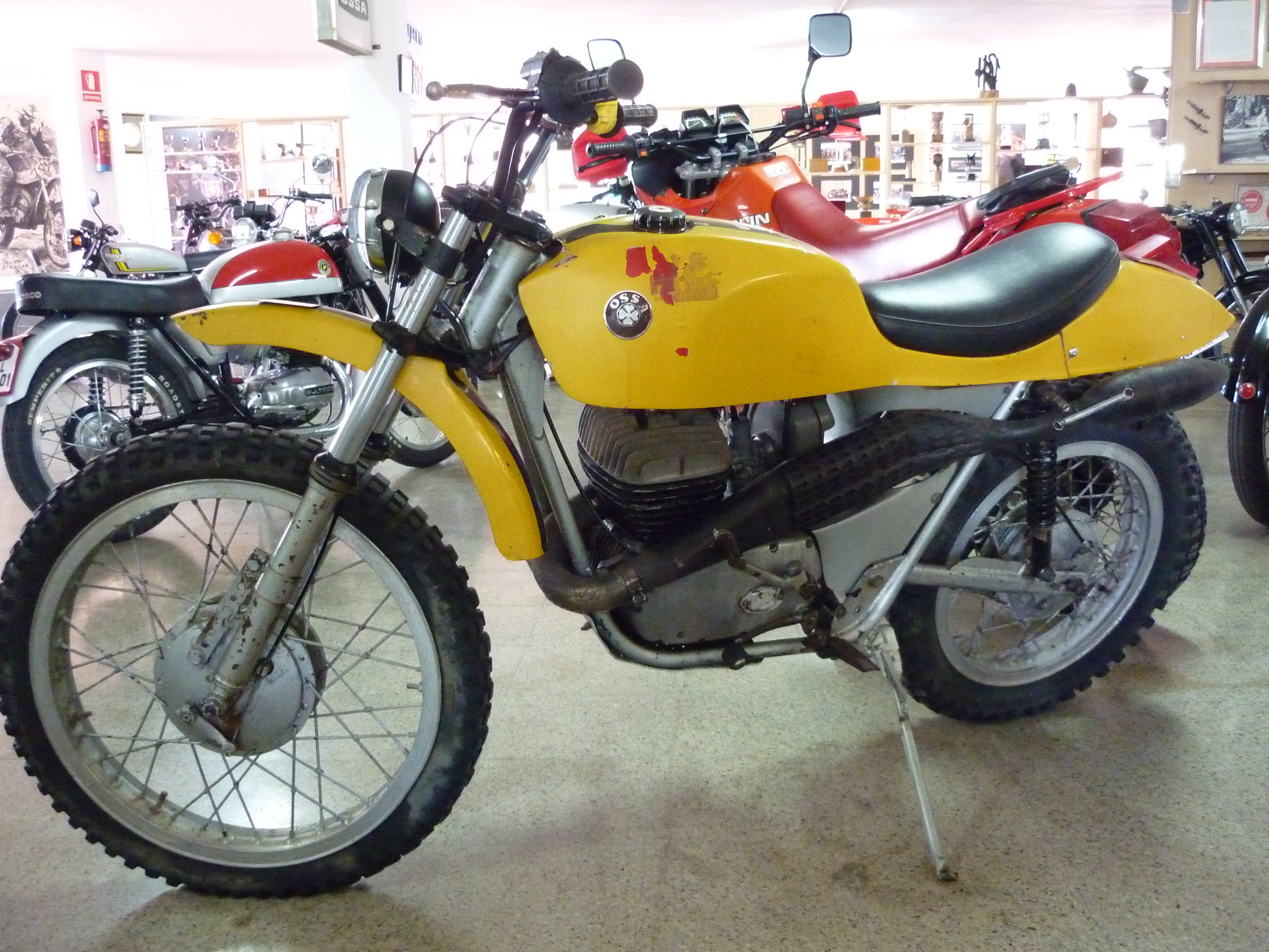 OSSA Enduro from around 1970. Made between 1967 and 1969 under the name 230 Enduro.Isern Motorcycle Museum, Mollet del Vallès (Catalonia).